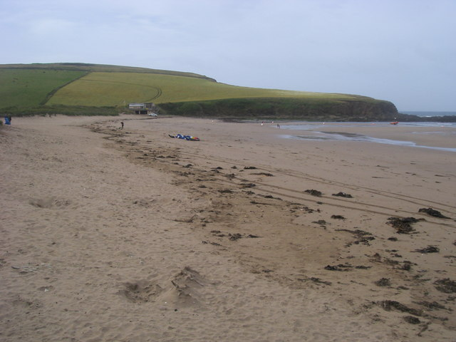 Bantham Beach Looking down Bantham Beach